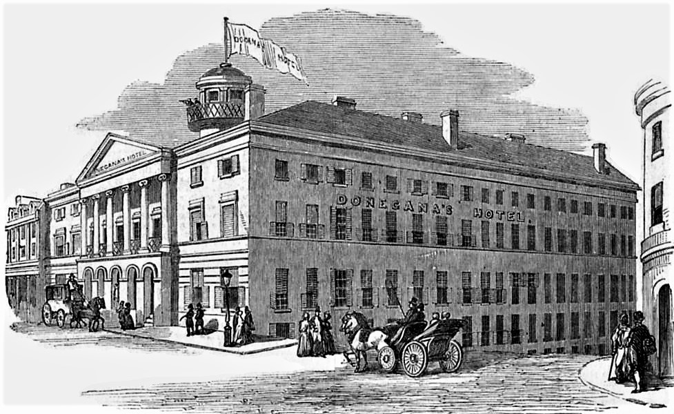 Signatures and inscriptions Inscription: l.c.: DONEGANA'S HOTEL, MONTREAL, DESTROYED BY FIRE, AUGUST 16, 1849 Copyright: Expired Credit: Library and Archives Canada, Acc. No. R9266-1741 Published in the Illustrated London News, Sept. 8, 1849, p. 164.